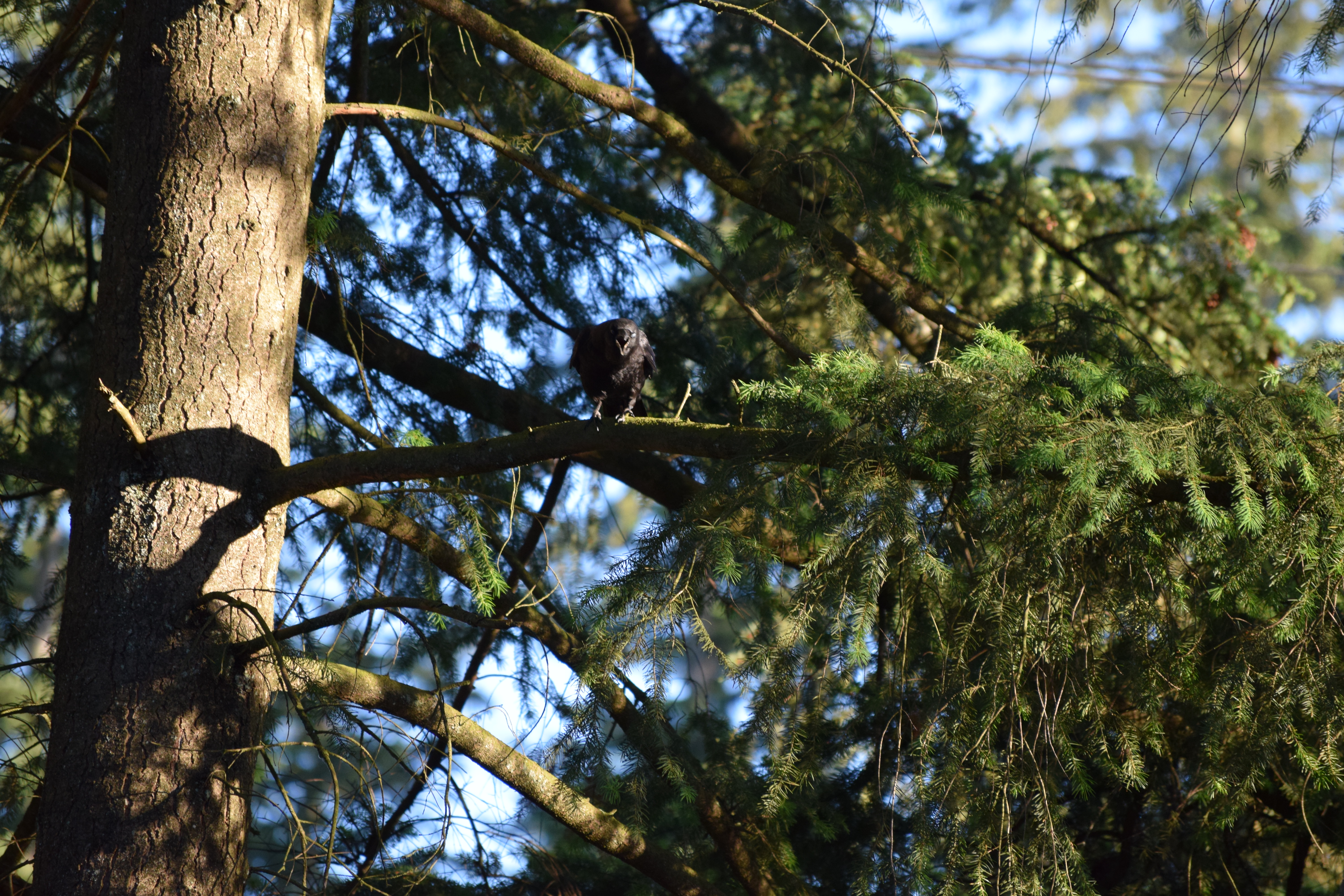 American Crow sitting on a Douglas-fir branch screaming at the photographer. Seattle area, Washington.